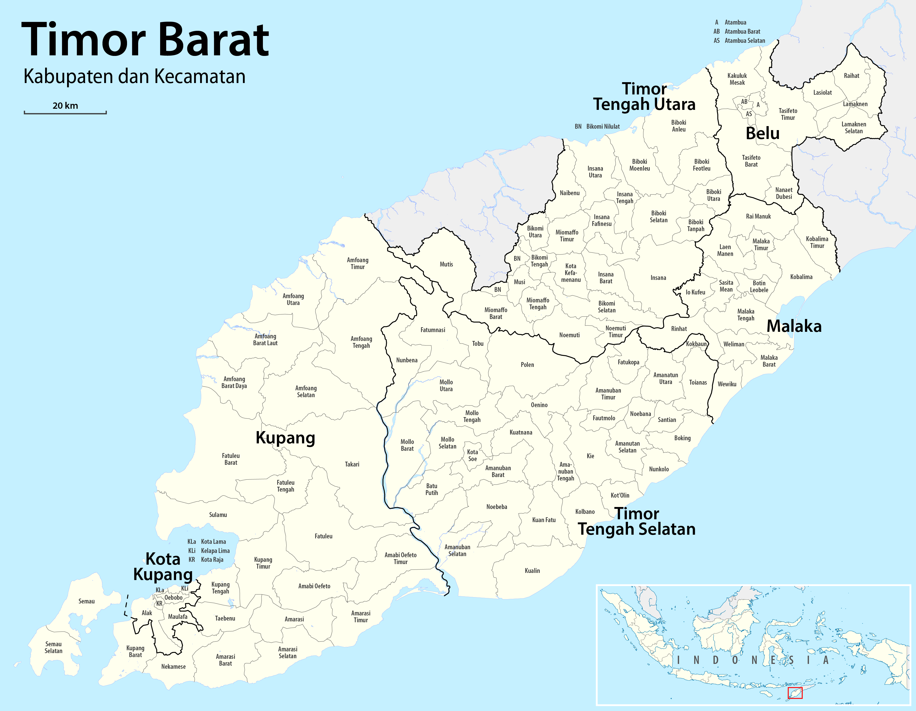 Administrative map of West Timor: regencies and districts